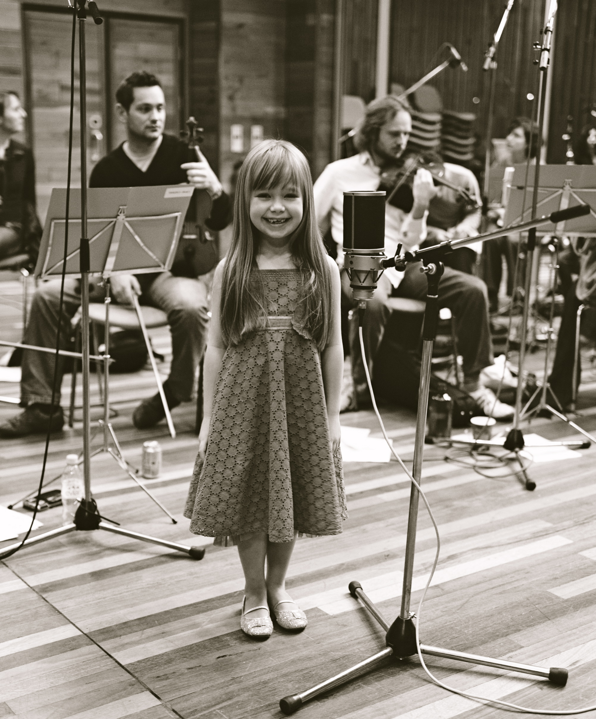 British child singer Connie Talbot, at the Olympic Studios